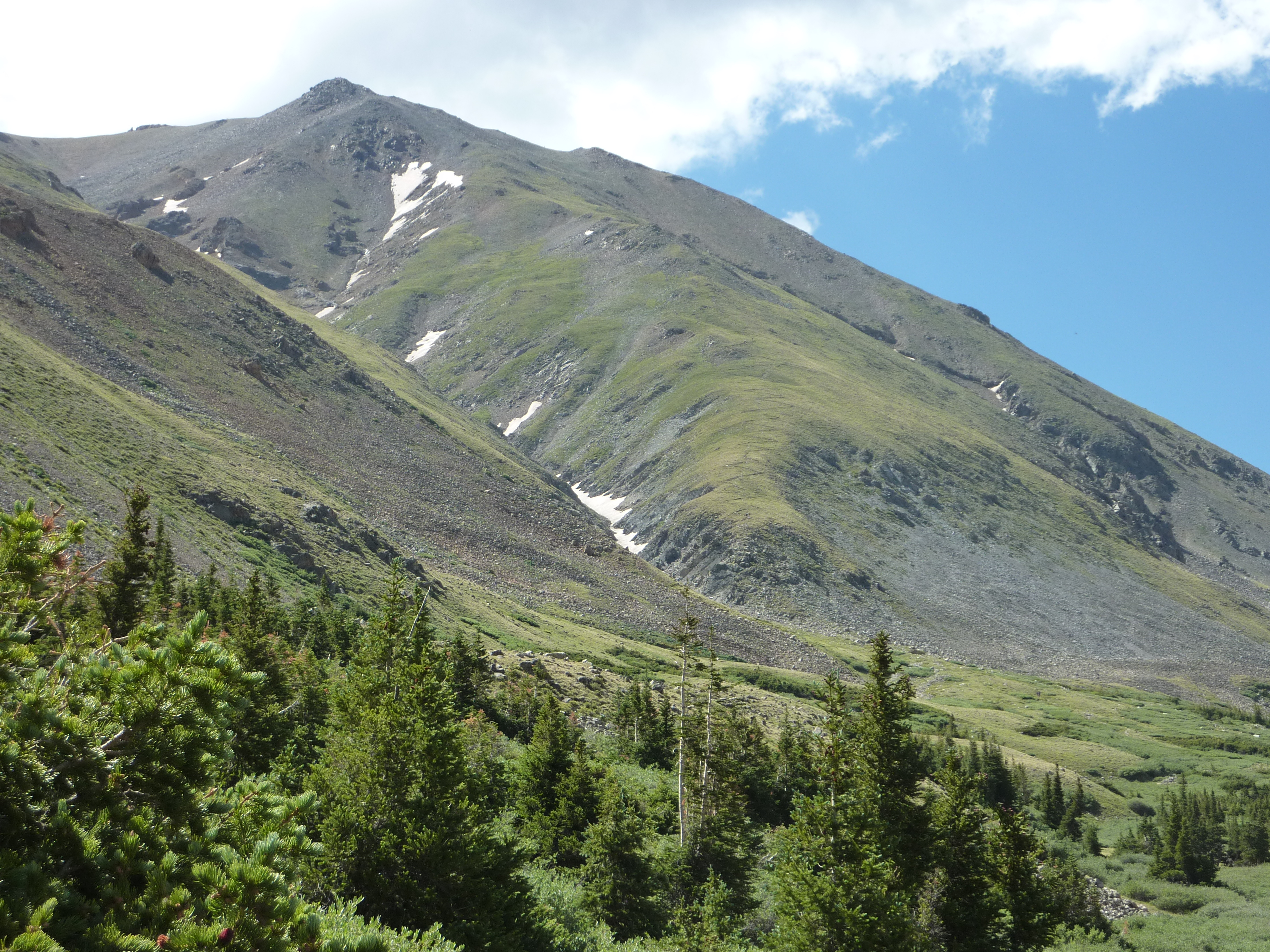 Approach and summit of Mt. Belford, from the north